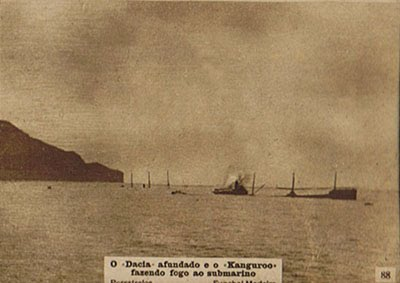 The wreck of the Dacia and of the Kanguroo on December 3, 1916.